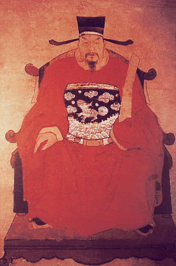 Wang Guoguang, politician of the Ming Dynasty